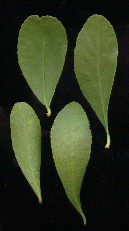 Leaves of Maytenus heterophylla, small South African tree from Magaliesberg